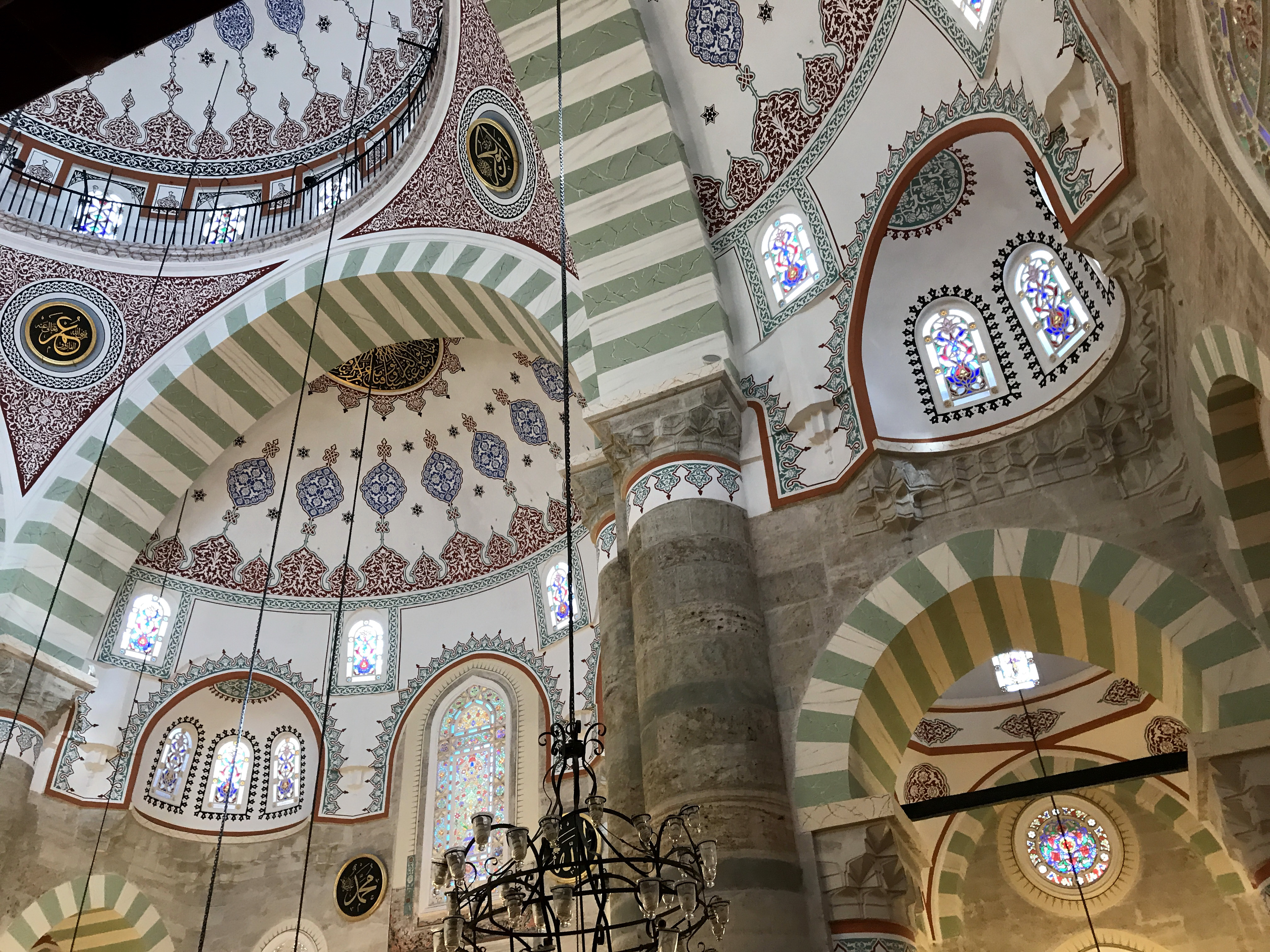 Mihrimah Sultan Mosque (built 1548), is an Ottoman mosque located in the historic center of the Üsküdar municipality in Istanbul, Turkey. It is the first of two mosques built by Mihrimah Sultan, daughter of Sultan Suleiman the Magnificent and wife of Grand Vizier Rüstem Pasha. It was designed by Mimar Sinan and built between 1546 and 1548.